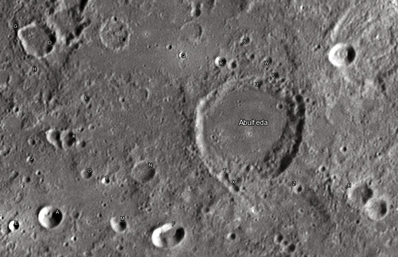 Abulfeda lunar crater as seen from Earth with satellite craters labeled